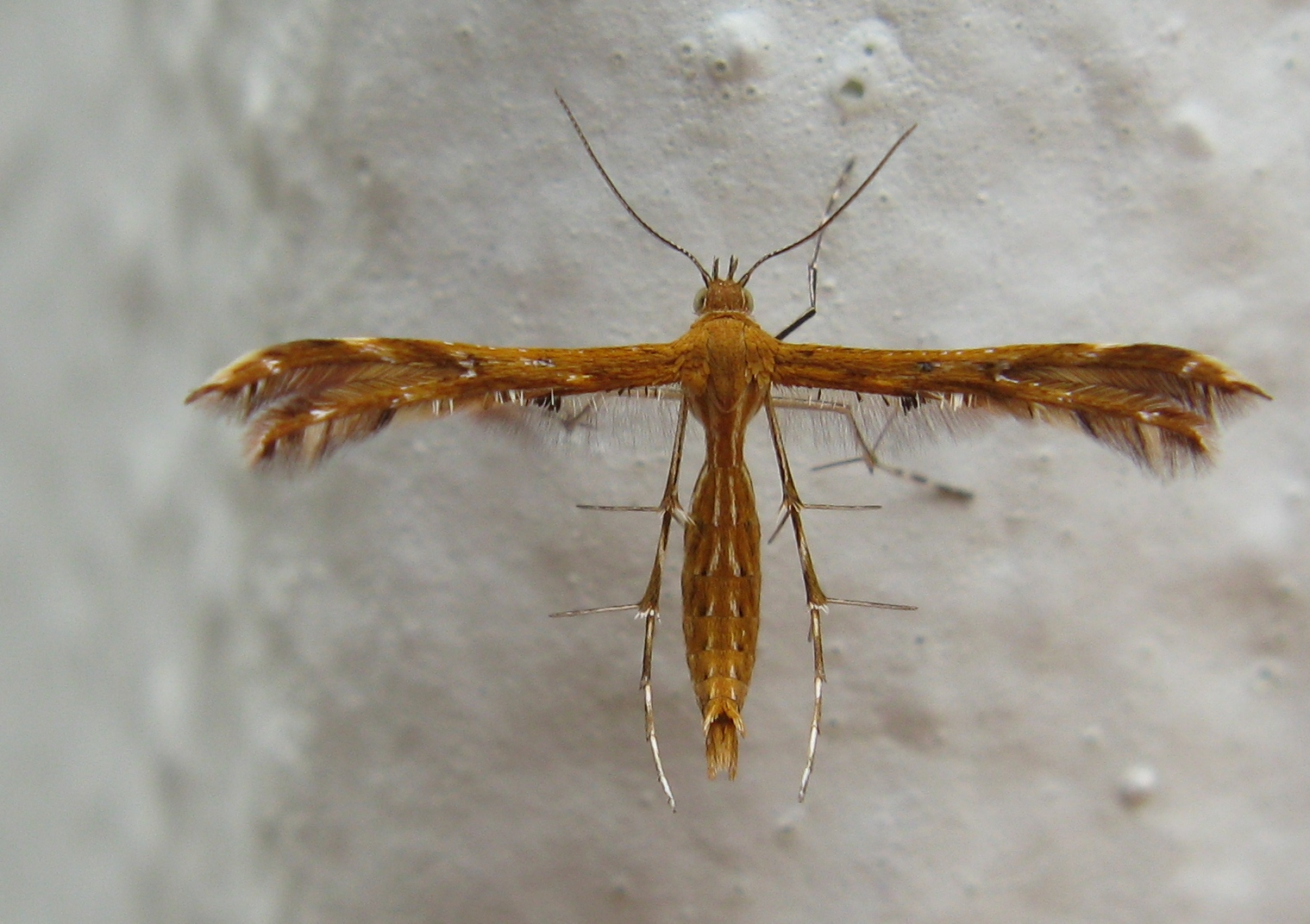 Specimen of Stenodacma wahlbergi (Zeller 1852), a plume moth in the family Pterophoridae. Location Somerset West, South Africa.